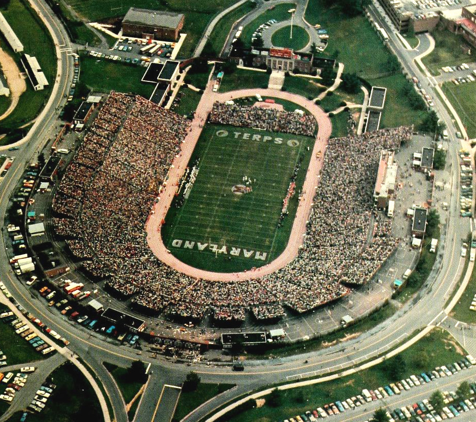 Byrd Stadium, now known as Maryland Stadium, the home of the Maryland Terrapins football team.